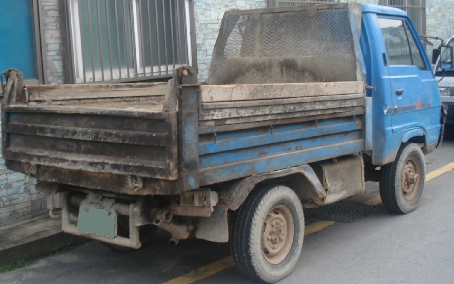 Kia Ceres